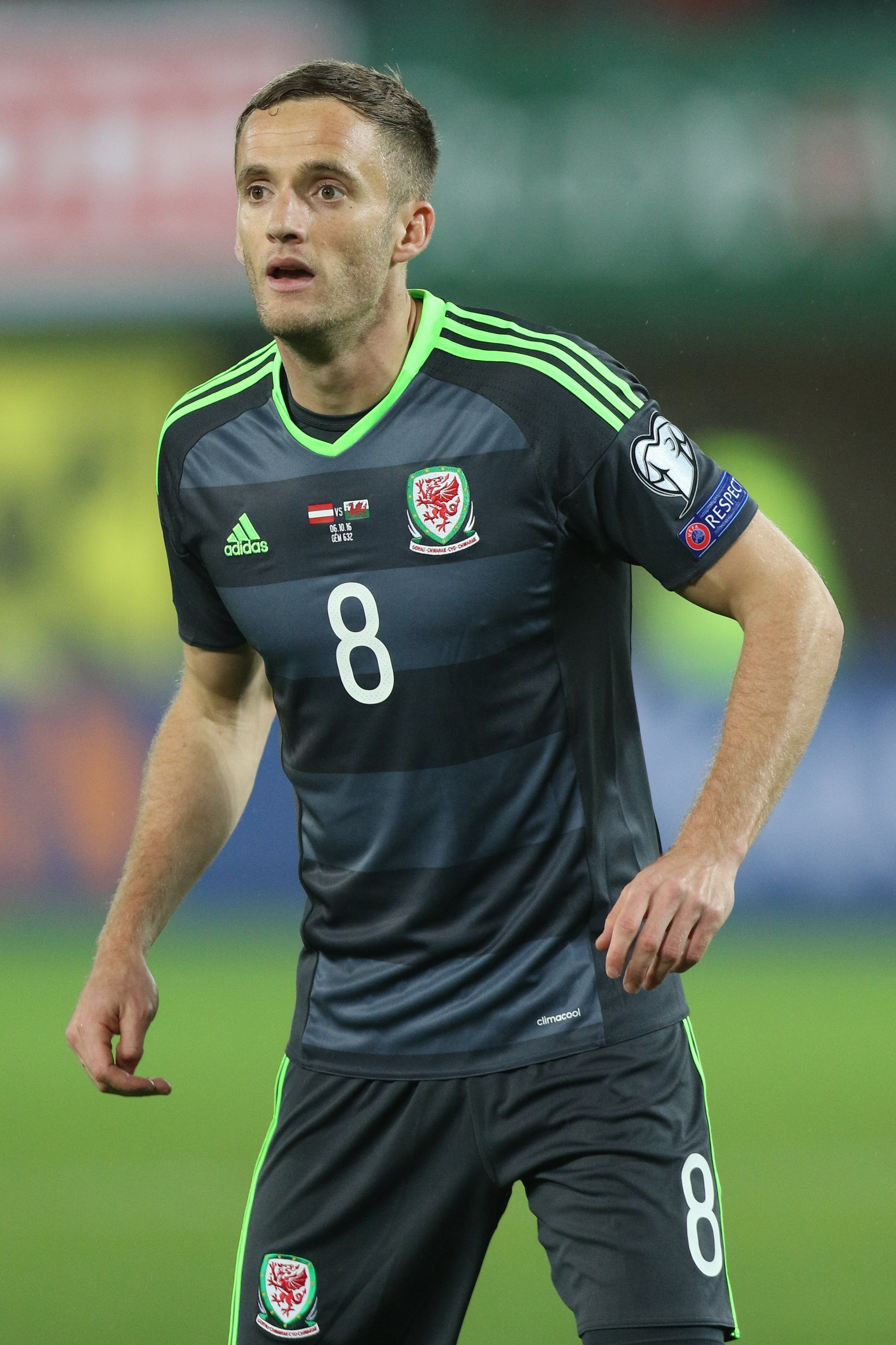 2018 FIFA World Cup qualification – UEFA Group D) – Austria (red shirts) vs. Wales (white shirts) 2-2 (1-2) – 2016-10-06 in Vienna, Ernst-Happel-Stadion – The photo shows Andy King.